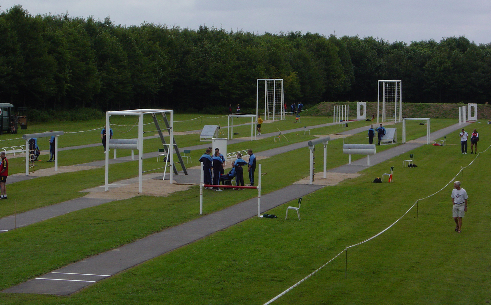 Obstacle course in Naval Pentathlon, from European Championship 2004 in Germany.